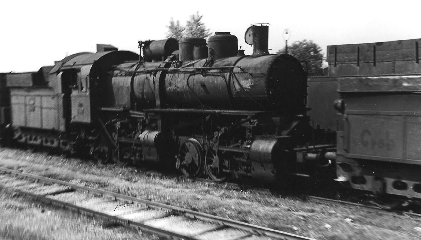 Withdrawn class 31 Mallett of JŽ